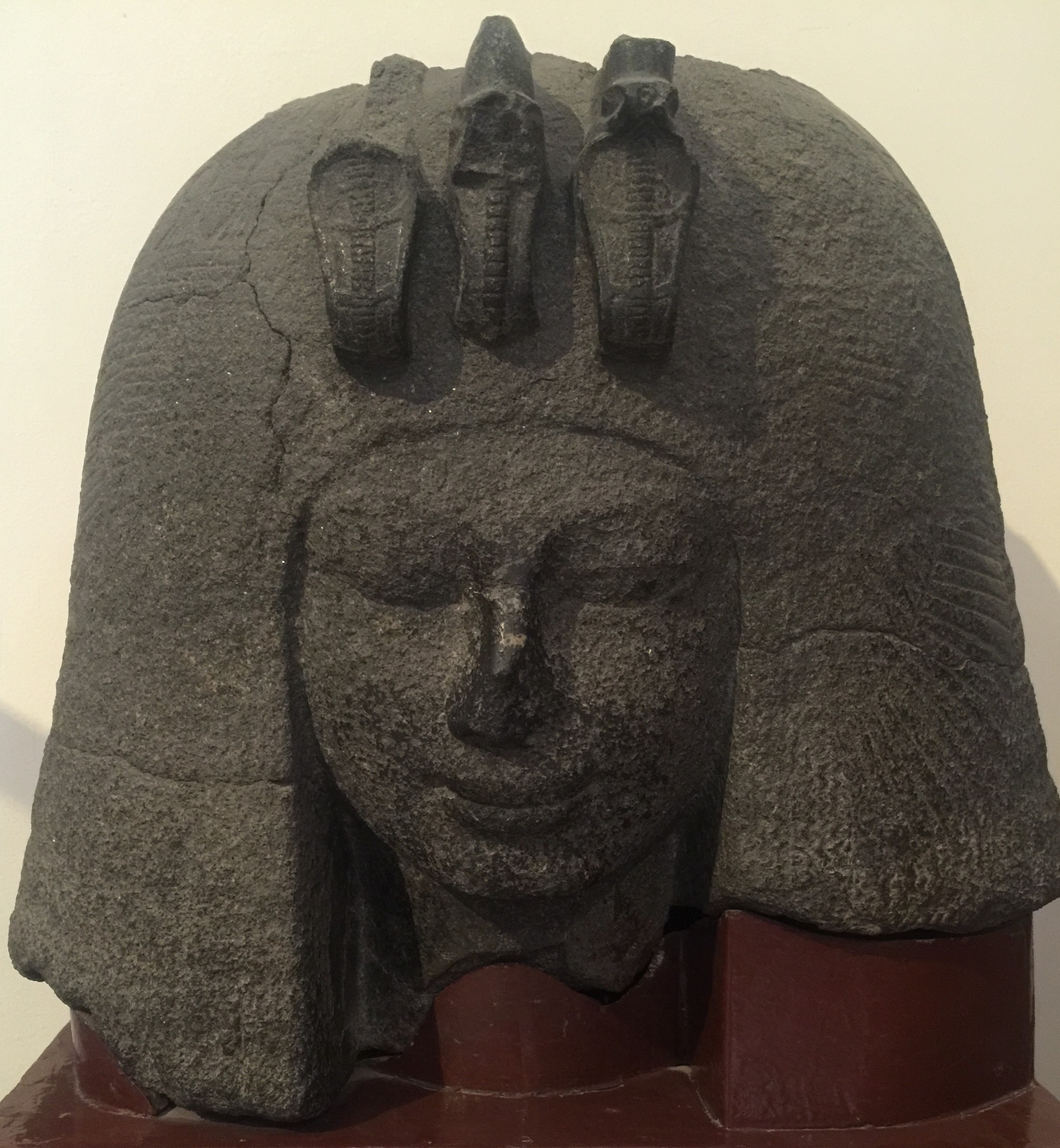 Queen Tiye, Great Royal Wife, 18th dynasty